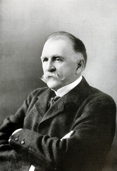 Inventor William Painter, 1896